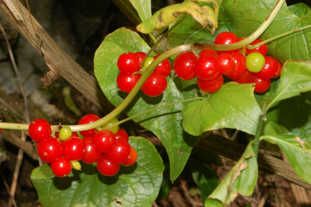 Tamus communis, Genova. Italy